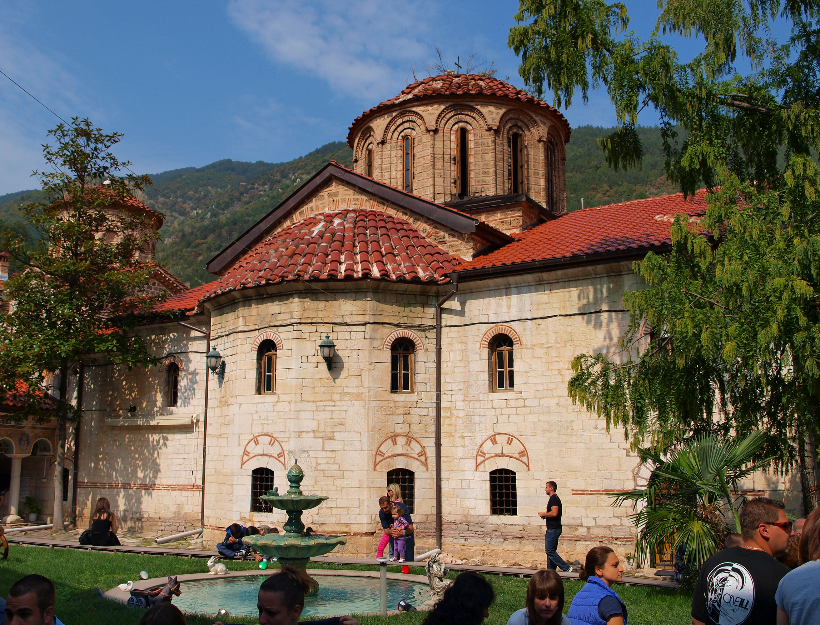 Bachkovo Monastery, Bachkovo, Bulgaria: the main Church of the Holy Mother of God